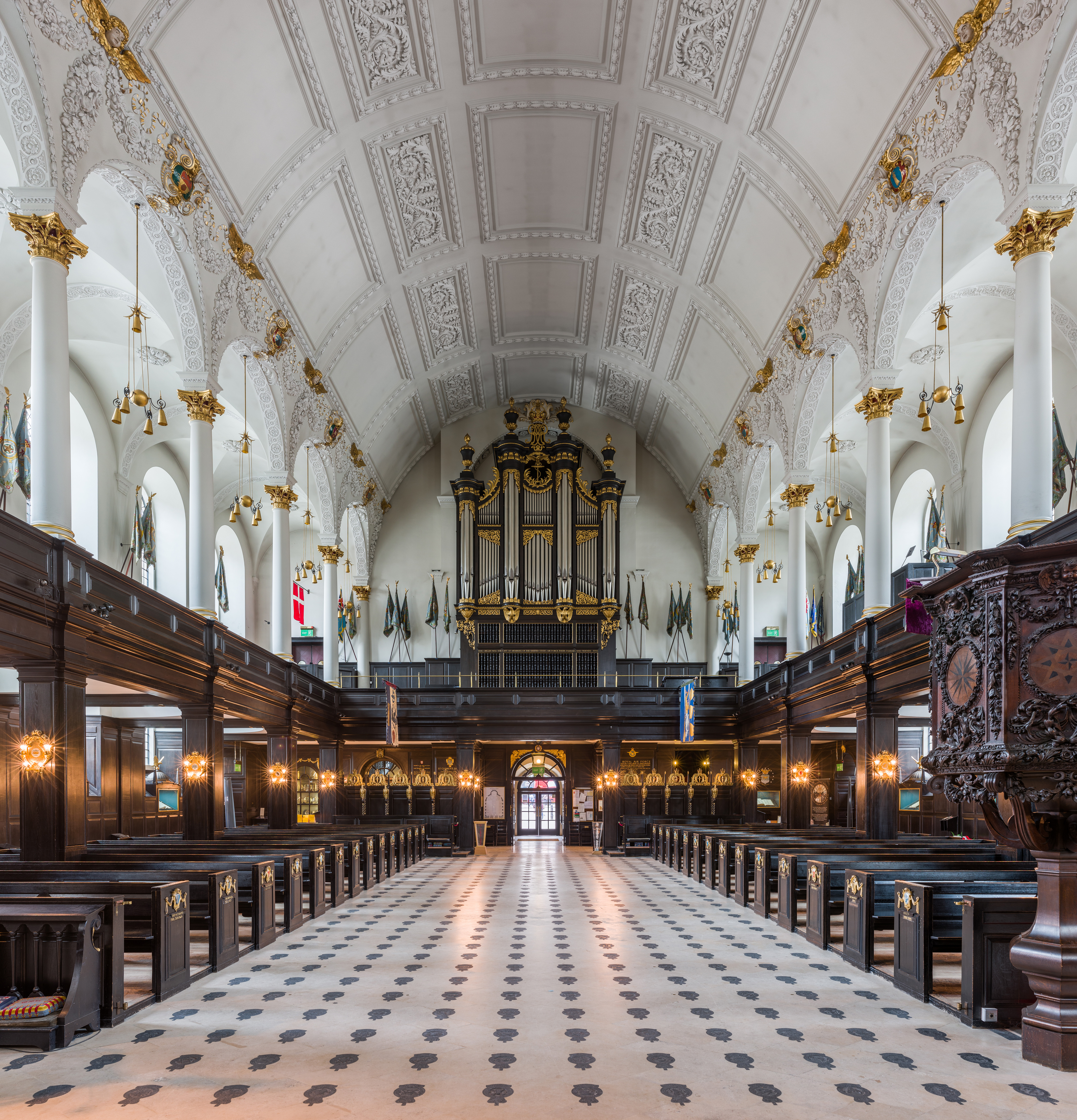 The entrance and organ of Saint Clement Danes Church in London, England.